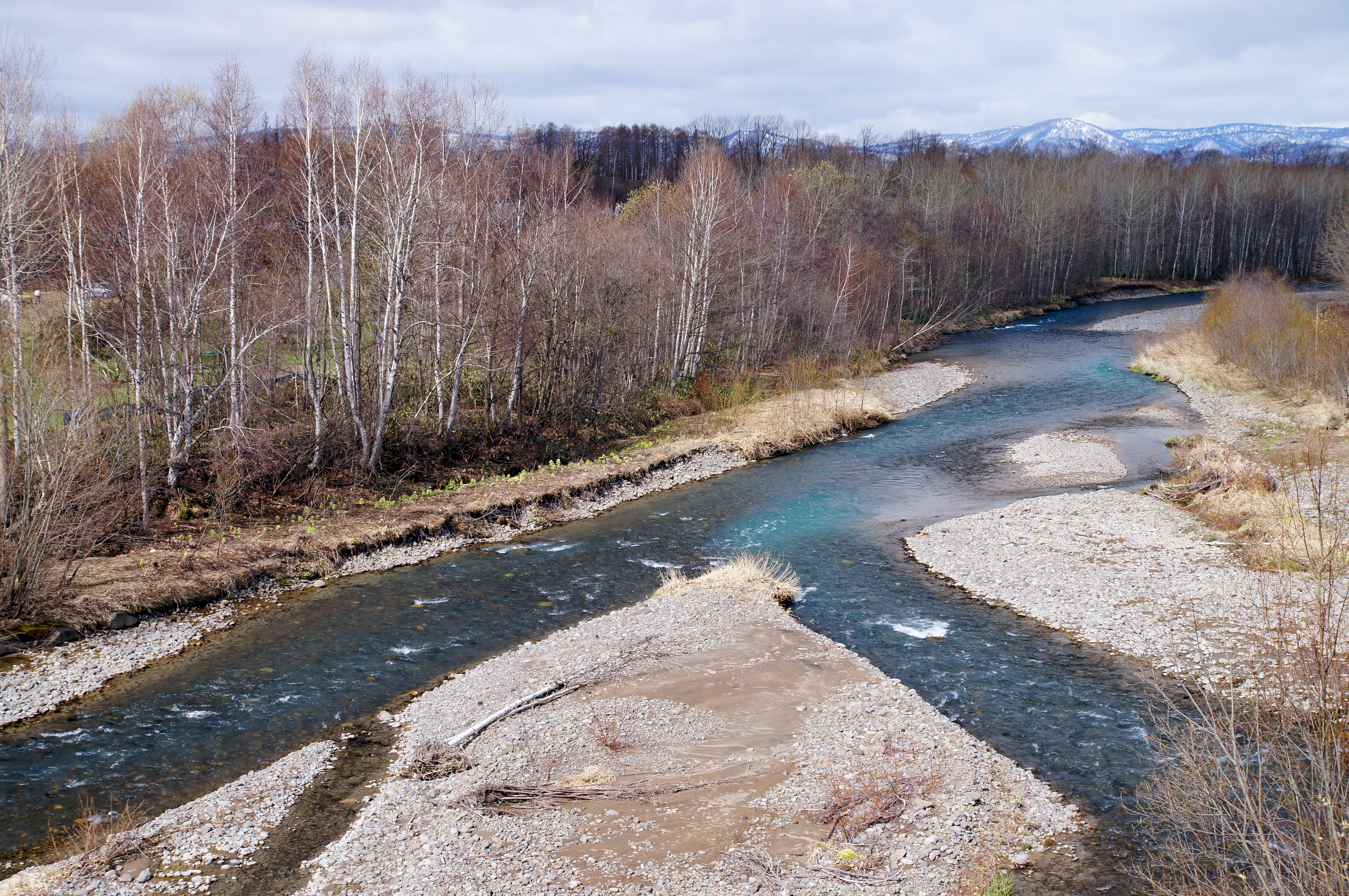 Biei River at Biei, Hokkaido prefecture, Japan.